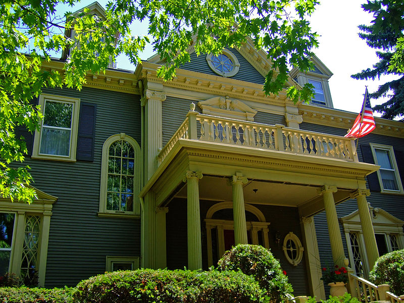 Richard T. Ely House